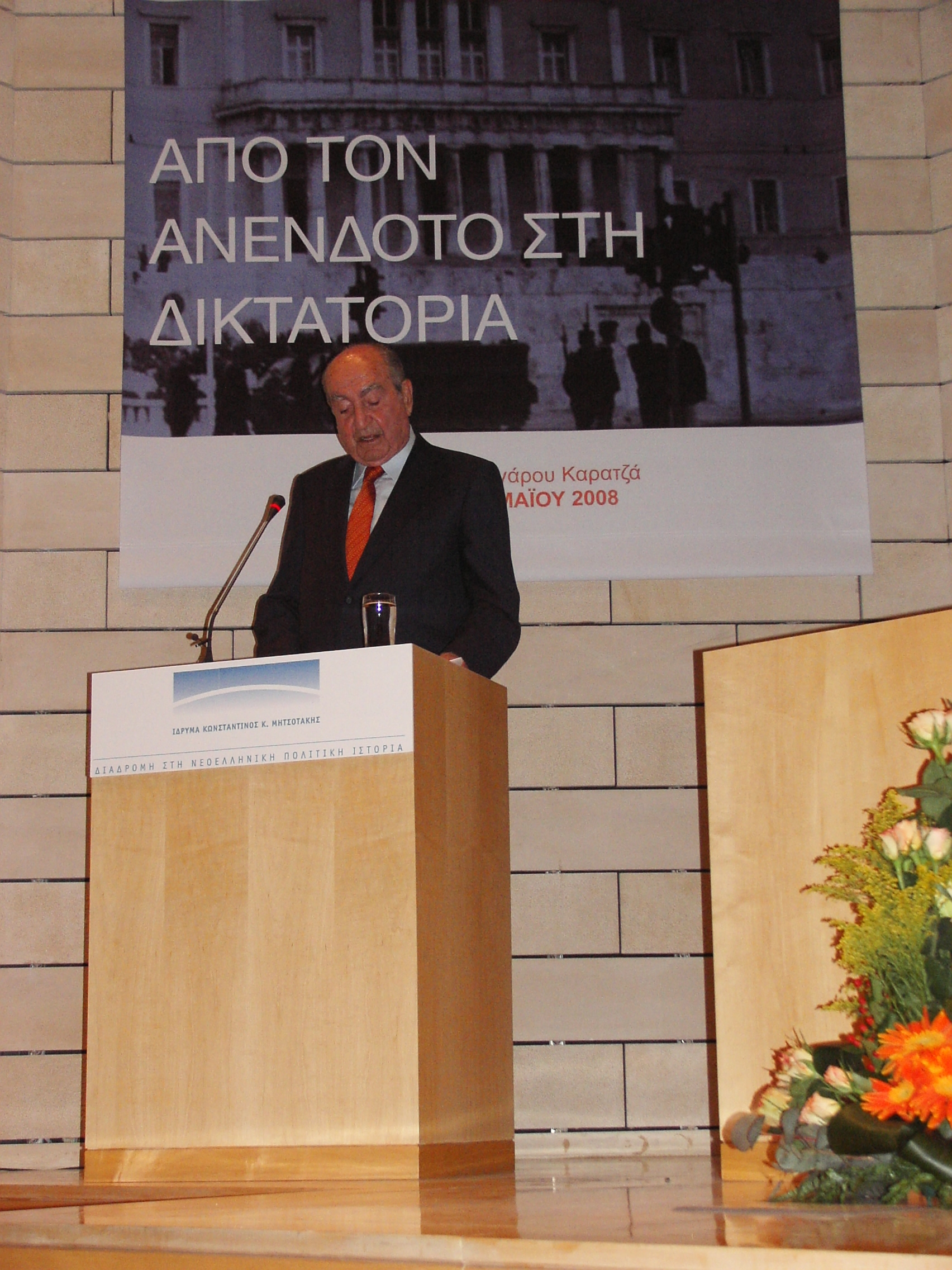 Constantine Mitsotakis (Greek: Κωνσταντίνος Μητσοτάκης or Konstantinos Mitsotakis) (born October 18, 1918), is a Greek politician and ex Prime Minister of Greece